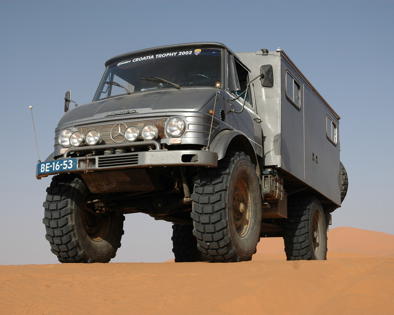 This custom Unimog was playing in the Dunes of Erg Chebbi